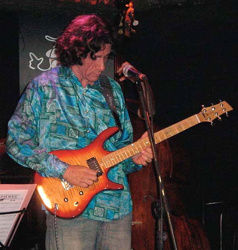 Guitar player Jan Dumée live in Rio de Janeiro, 2006